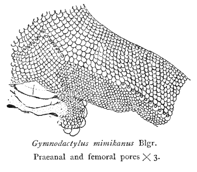 Femoral pores of a gecko on a Gymnodactylus mimikanus (Syn. Cyrtodactylus mimikanus)